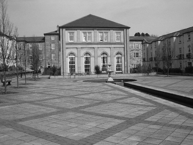 Lancaster Moor Asylum - chapel Added to the 1816 asylum in 1842. By this time Samuel Gaskell,surgeon, was superintendent and there were about 600 patients, all paupers.